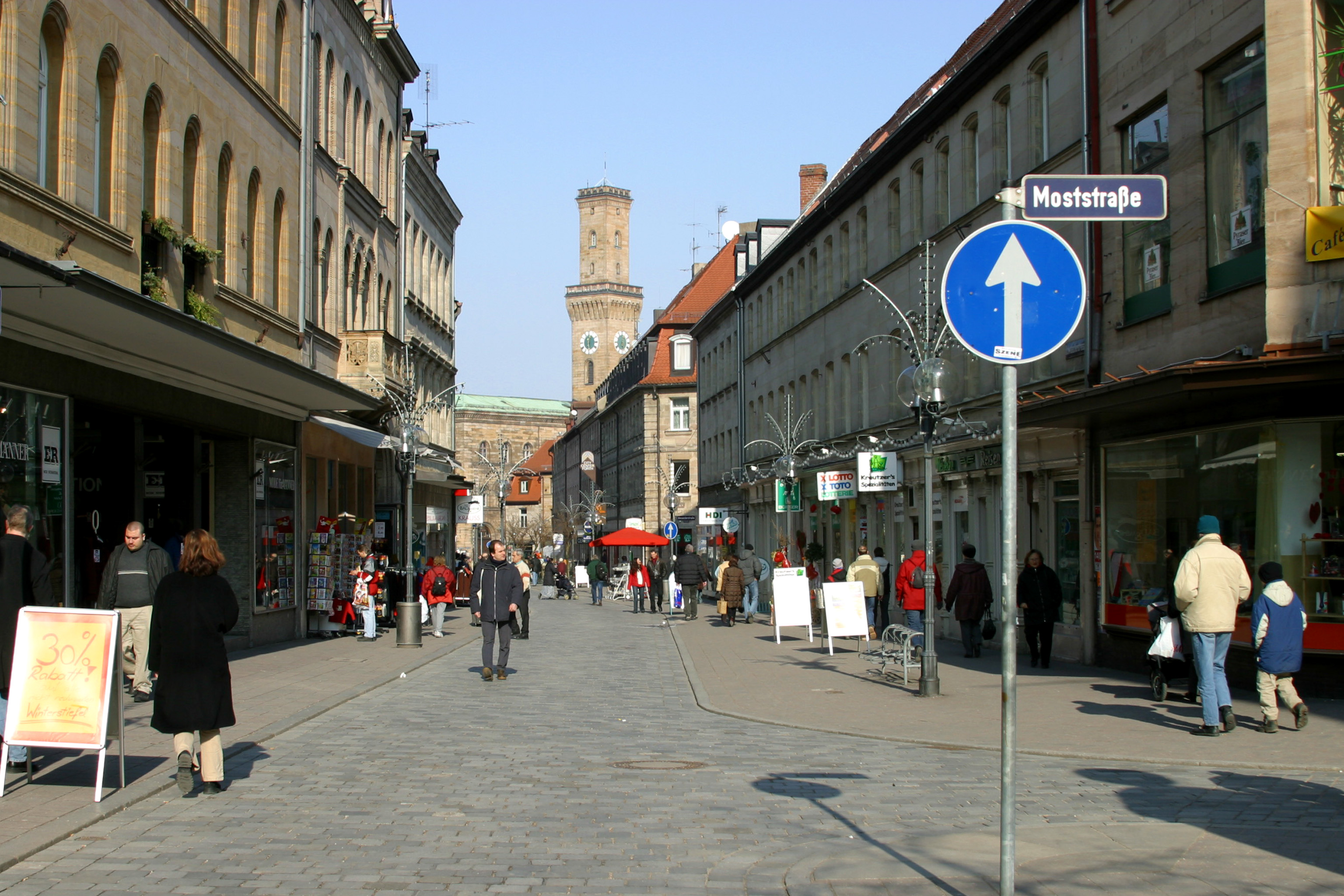 Picture from Fürth (Bayern) Germany